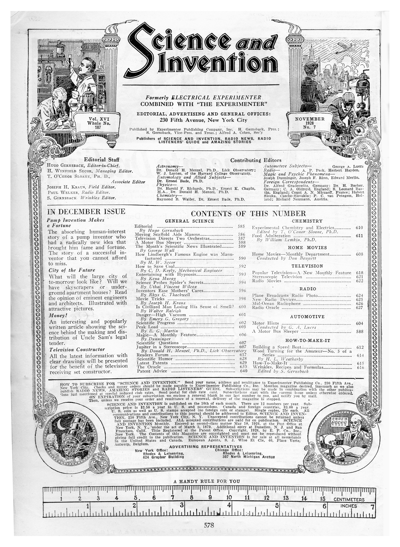 Science and Invention, November 1928. Volume 16 Number 7. Published by Experimenter Publishing. New York, NY. Editor-in-Chief and Publisher: Hugo Gernsback Image:Science and Invention Nov 1928 Cover 2.jpg Image:Science and Invention Nov 1928 pg578.png Image:Science and Invention Nov 1928 pg618.png Image:Science and Invention Nov 1928 pg619.png Image:Science and Invention Nov 1928 pg620.png Image:Science and Invention Nov 1928 pg632.png Image:Science and Invention Nov 1928 pg634.png Image:Science and Invention Nov 1928 pg636.png Image:Science and Invention Nov 1928 pg644.png The page numbers were on an annual basis, not per issue. This issue had pages 577 to 672. The magazine is 8.5 by 11.5 inches.